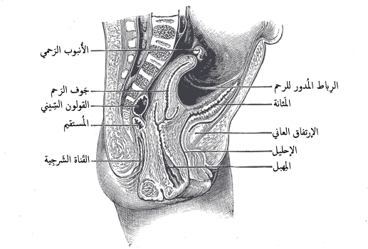 Sagittal section through the pelvis of a newly born female child.